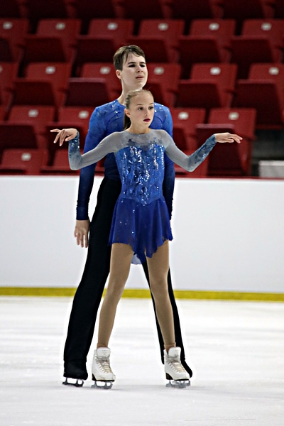 Brooke McIntosh and Brandon Toste at the 2019 JGP Lake Placid - SP